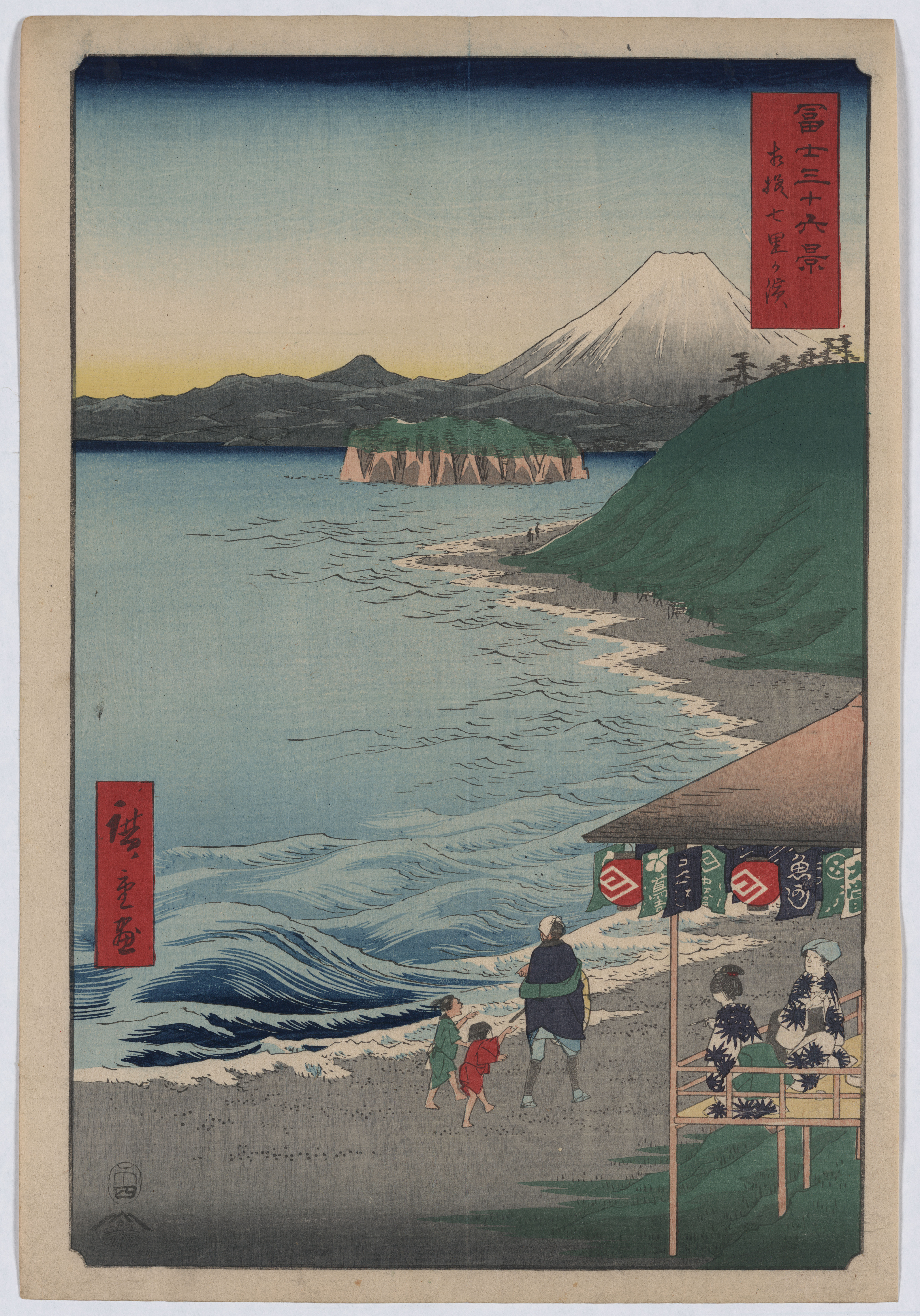 Utagawa Hiroshige: Sagami Shichirigahama from the Fuji Sanjūrokkei series. Enoshima is in the background.